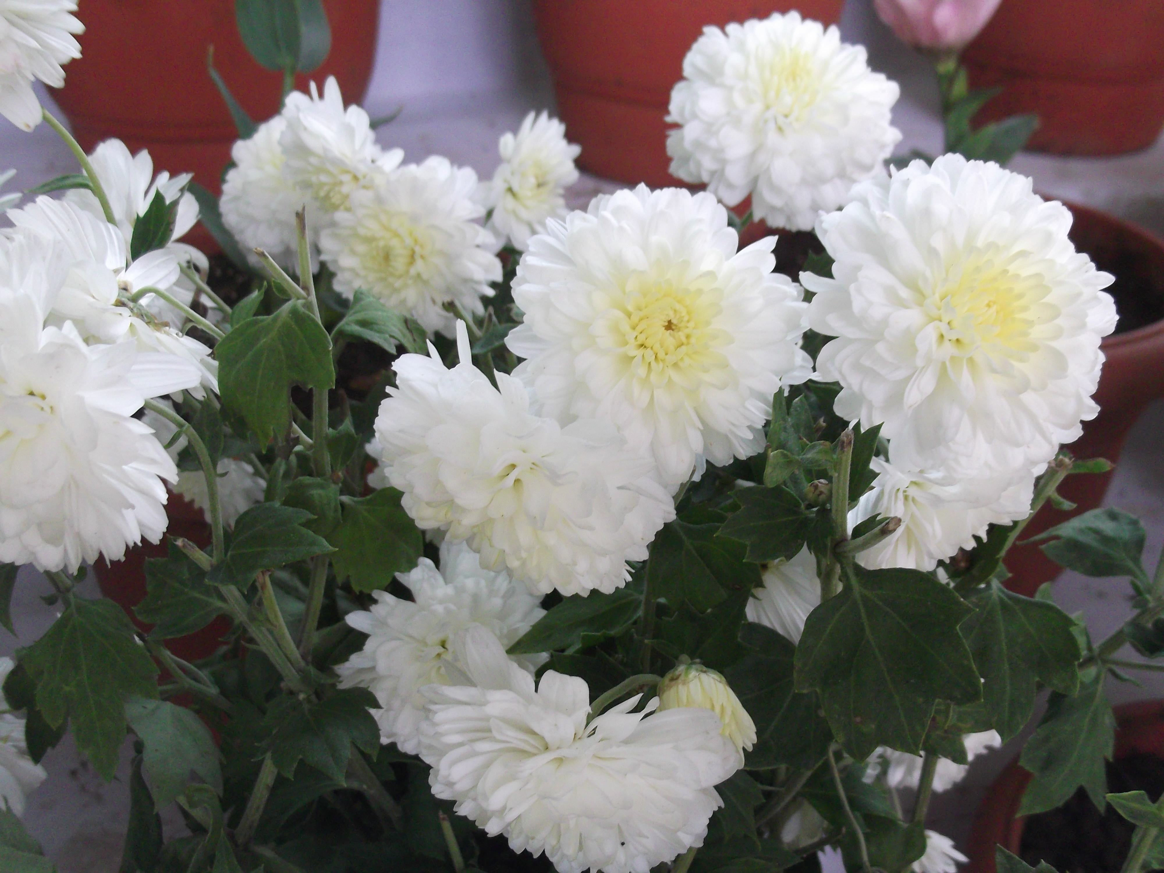 Flowers white,fully double.